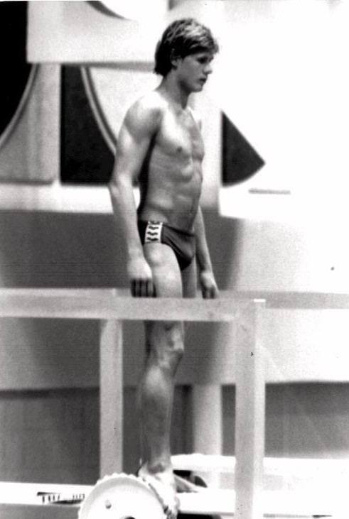 Diver Greg Fox adjusts Springboard Fuilcrum